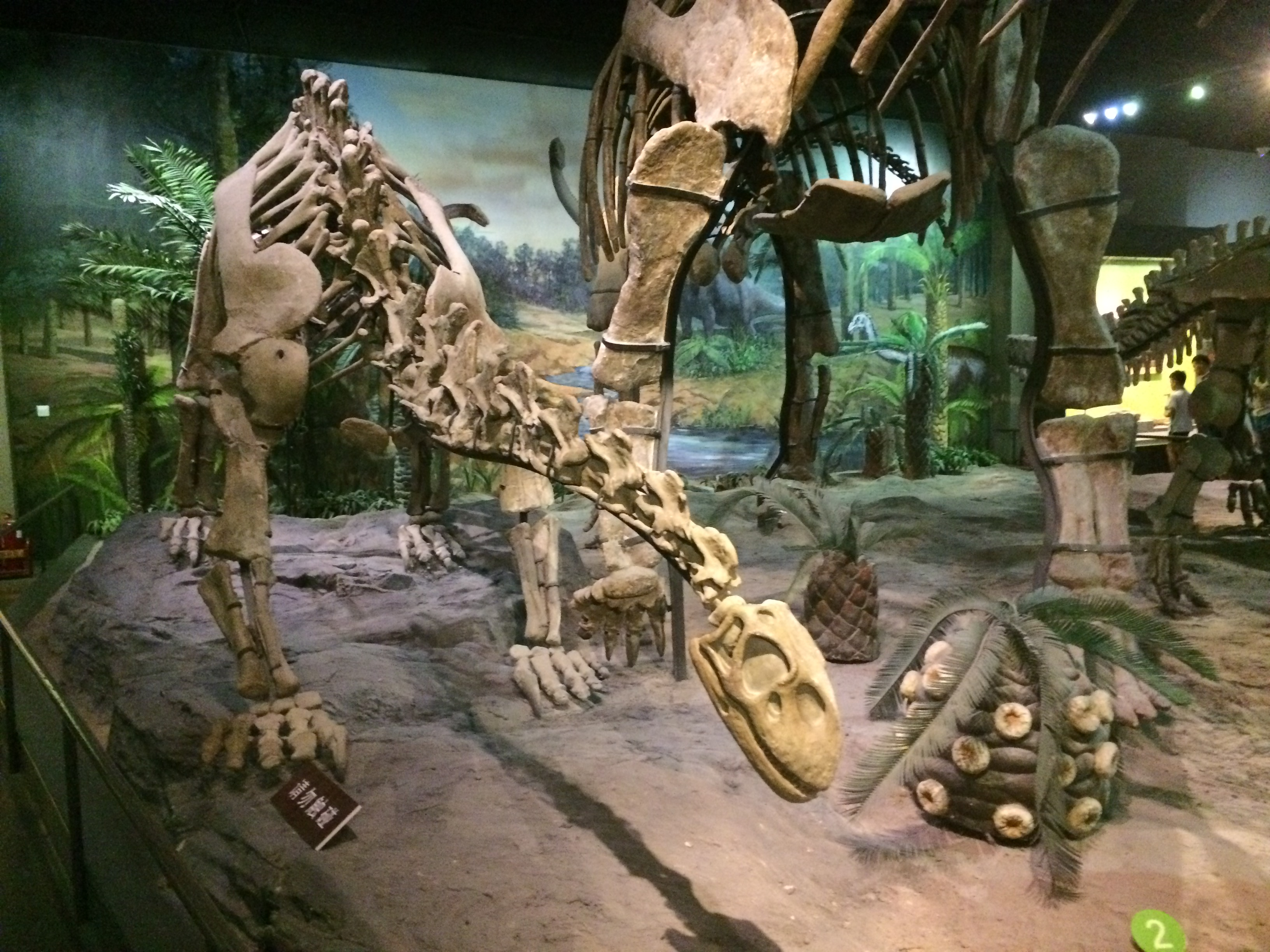 Shunosaurus at Tianjin Natural History Museum